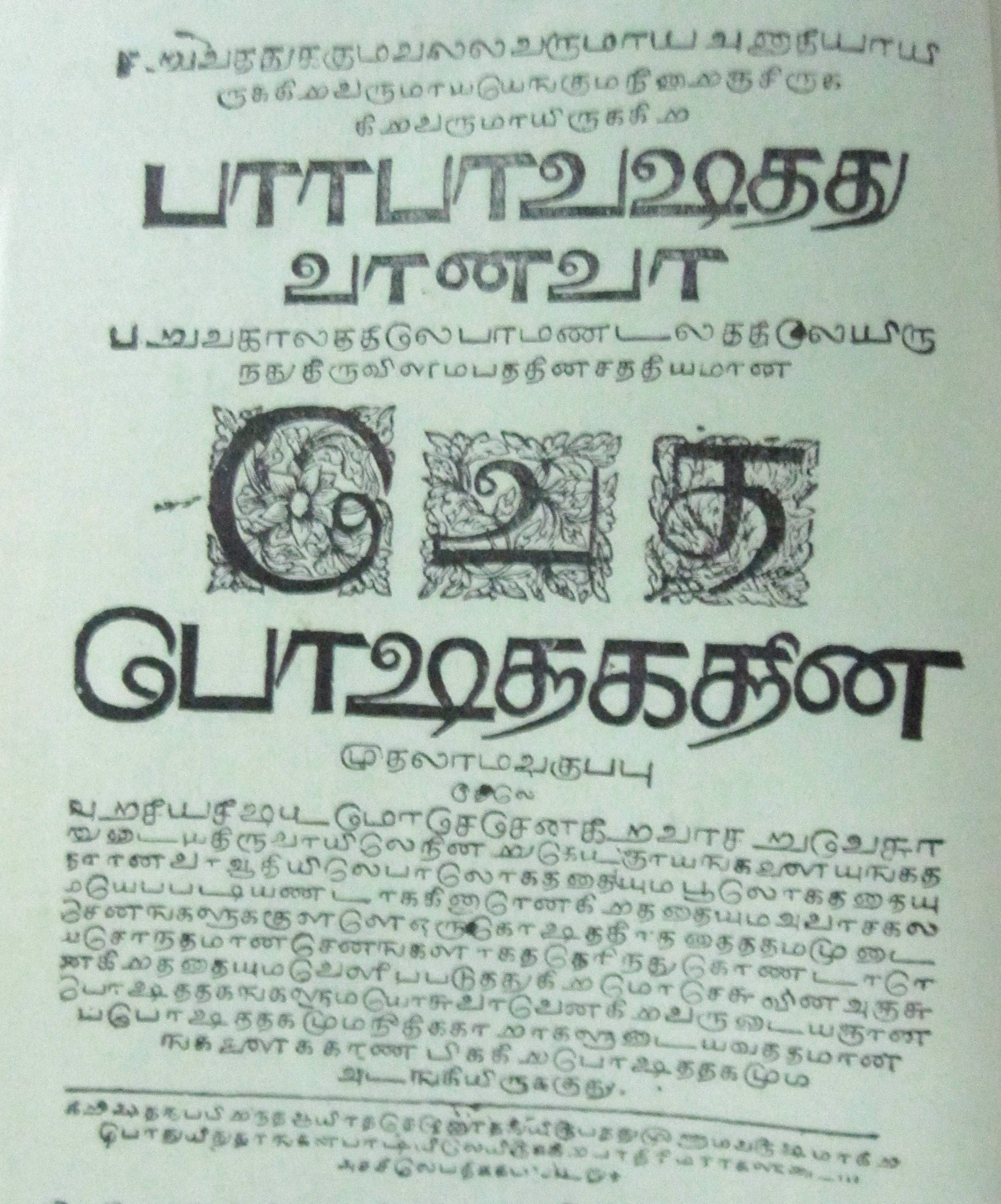 First page of a Tamil bible (new testament) printed in Tranquebar/Tharangambadi by Ziegenbalg. The Tranqebar press was established in 1712. The Tamil alphabet types were made in Germany by Ziegenbalg's friends. The Pica sized types were bulky, missing some letters and were not carved properly.The original printer Jonas Finck died on the journey to India. So Ziegenbalg made some new types in a newly constructed type foundry in Tranqebar. With a mixture of types the resulting work was uneven.